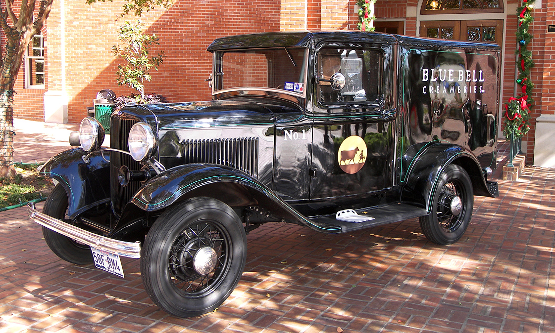 An old Blue Bell Creameries delivery truck in front of the factory in Brenham, Texas, United States.